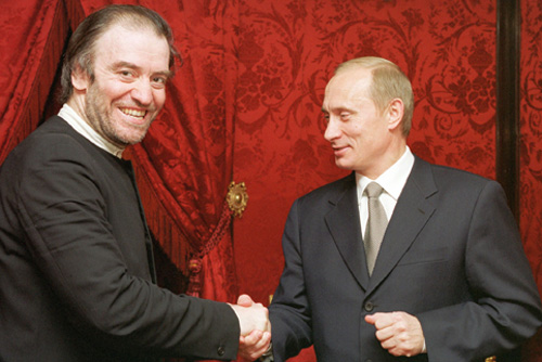 With director of the Mariynsky Theatre Valery Gergiev.